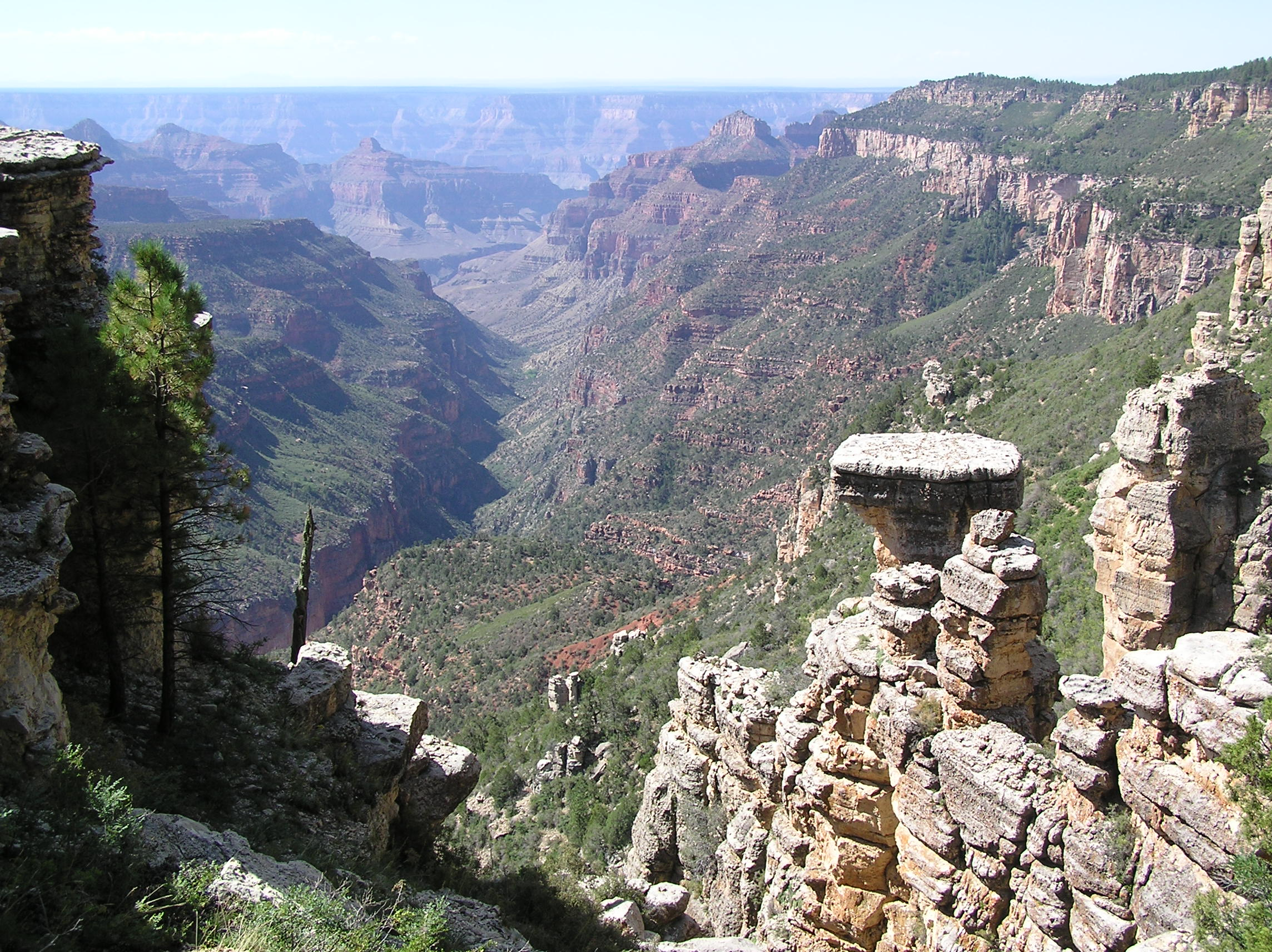 (photo synopsis)-View down-canyon/down-stream, of upper reaches of Phantom Canyon watershed. Tiyo Point is right (west) on ridgeline (out-of-view); lower elevation The Colonnade, is at left and when viewed from the South Rim, what is viewed is The Colonnade terminus, seen as an approximate rectangle-shape. (Viewed at left, Manu Temple & Brahma Temple. Viewed at end of this Phantom Canyon reach, Isis Temple, Arizona.) View of Grand Canyon from Tiyo Point - looking SSW-(almost due-south, down The Colonade). (Tiyo Point is at photo right, over ridgeline)--The canyon, The Colonnade, is a west drainage into Phantom Creek (3 canyons at headwaters, 2 are east and west of Tiyo Point). The ridgeline right continues to Shiva Temple-(unseen in photo), (a Plateau, tepui-like, flat landform), and the small prominence down the canyon is Isis Temple.